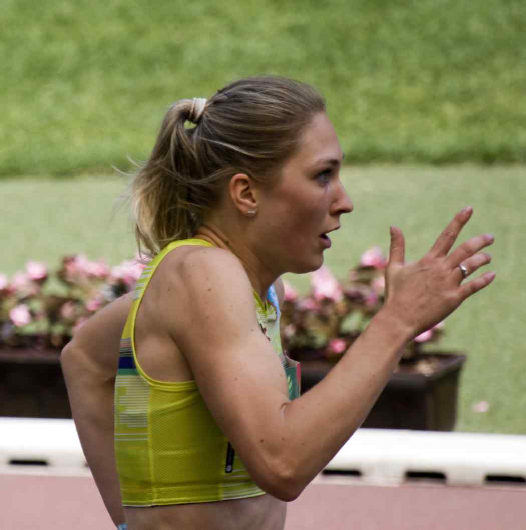 2018 Belgian Athletics Championships Brussels